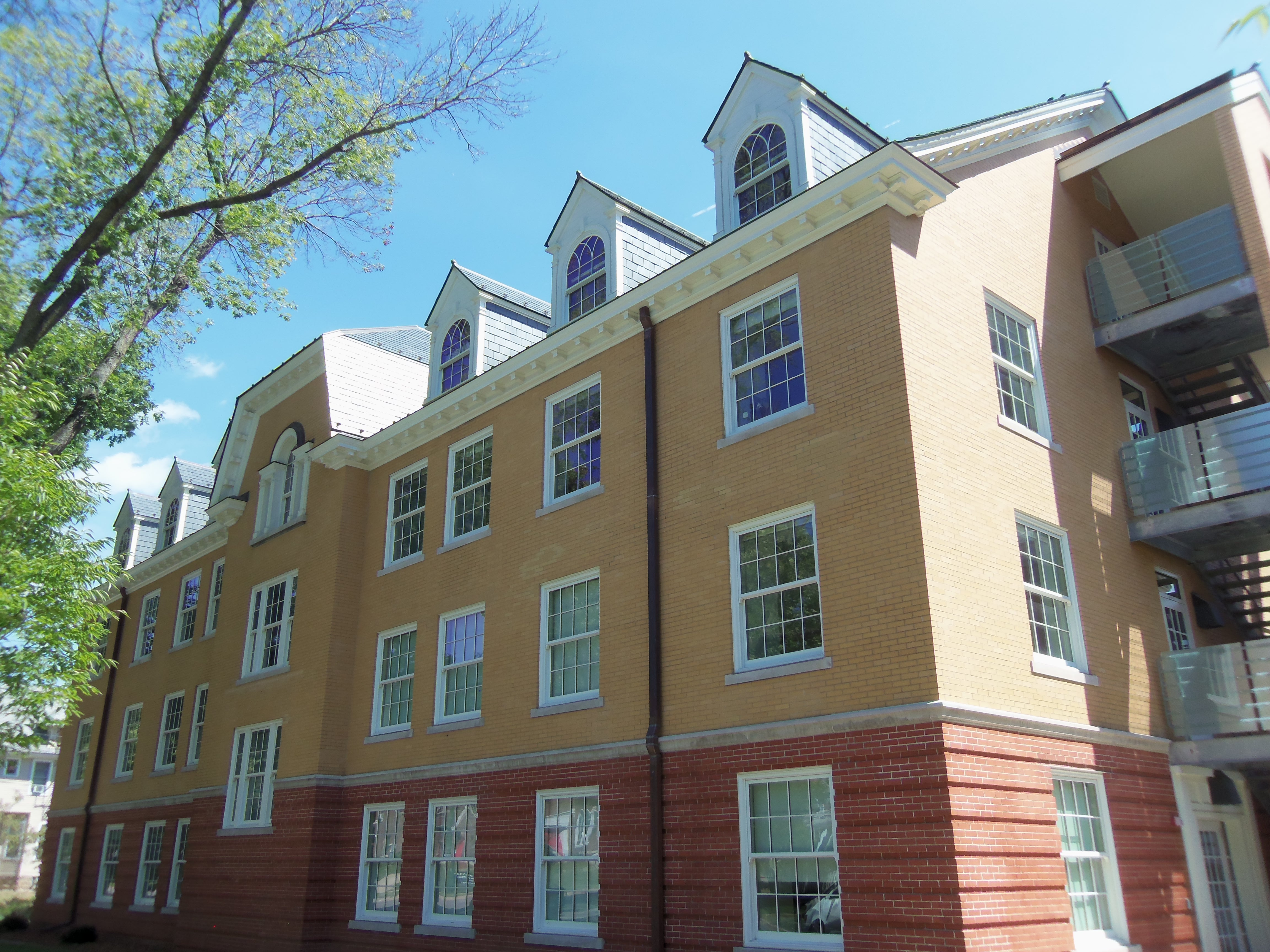 The former State University of Iowa Isolation Hospital is a part of the Jefferson Street Historic District in Iowa City.